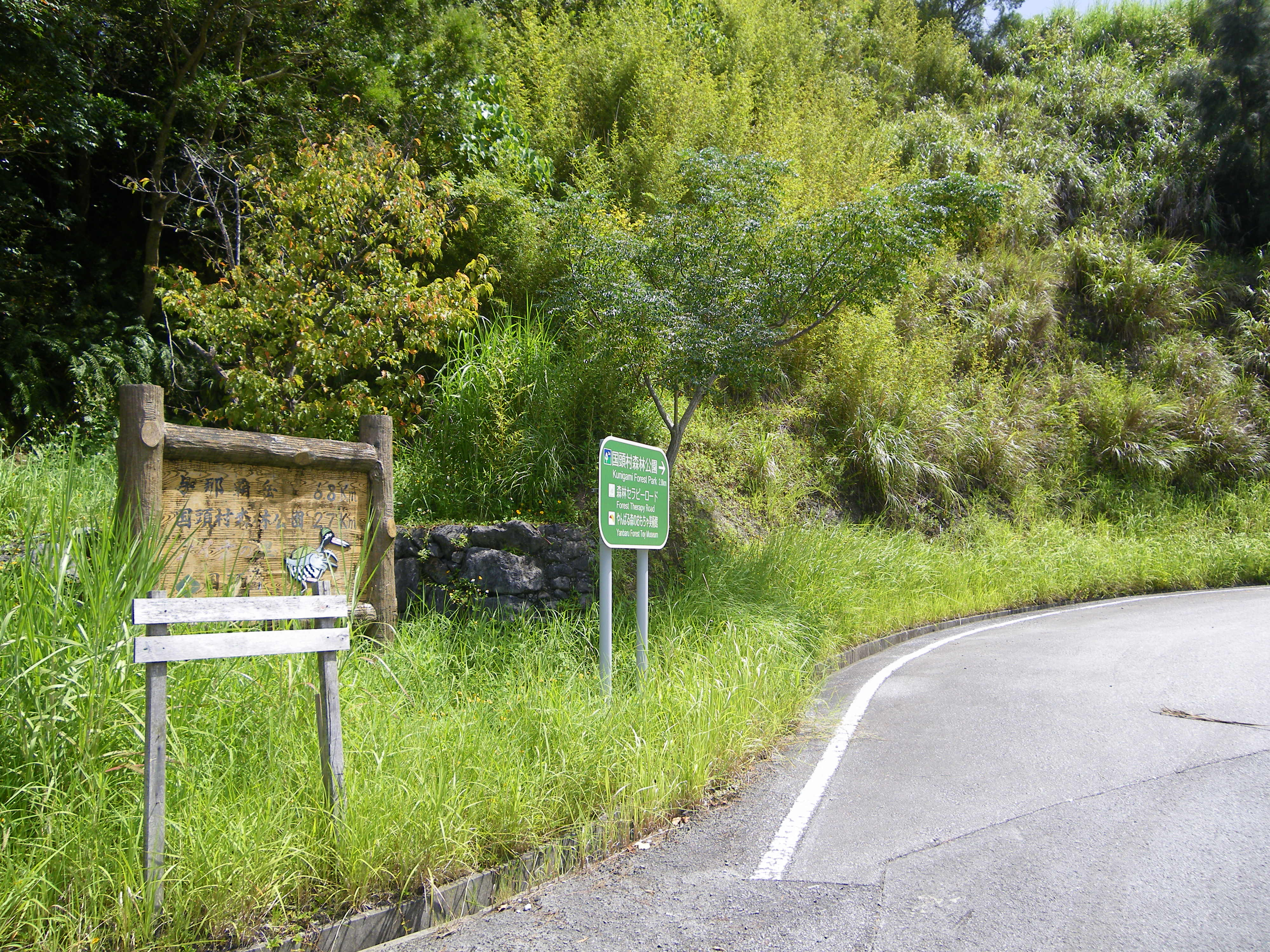 The entrance sign of Mount Yonaha and the Kunigami Forest Park, Kunigami, Okinawa Prefecture, Japan